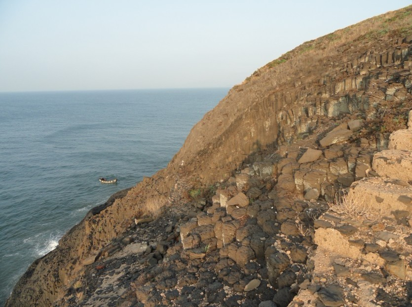 Nanding Island,China